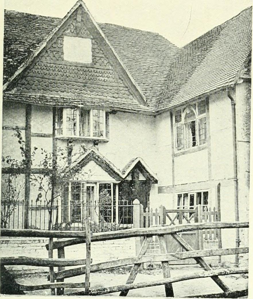 Picture of Coscote Manor extracted from Quiet roads and sleepy villages (1913) by Fea, Allan, 1860- captured in the Internet Archive Book Images project